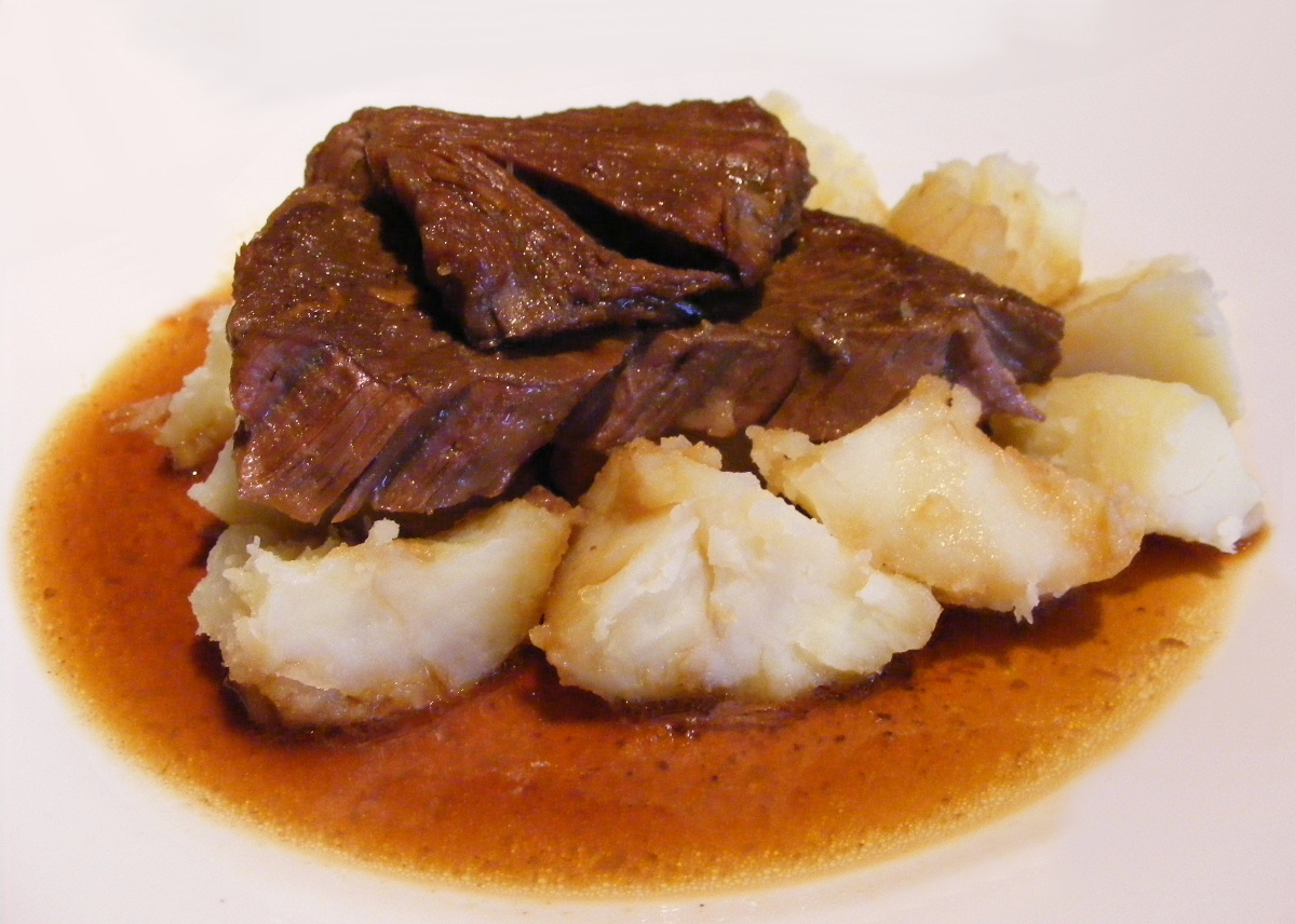 Very slow cooked veal. Dutch cuisine.